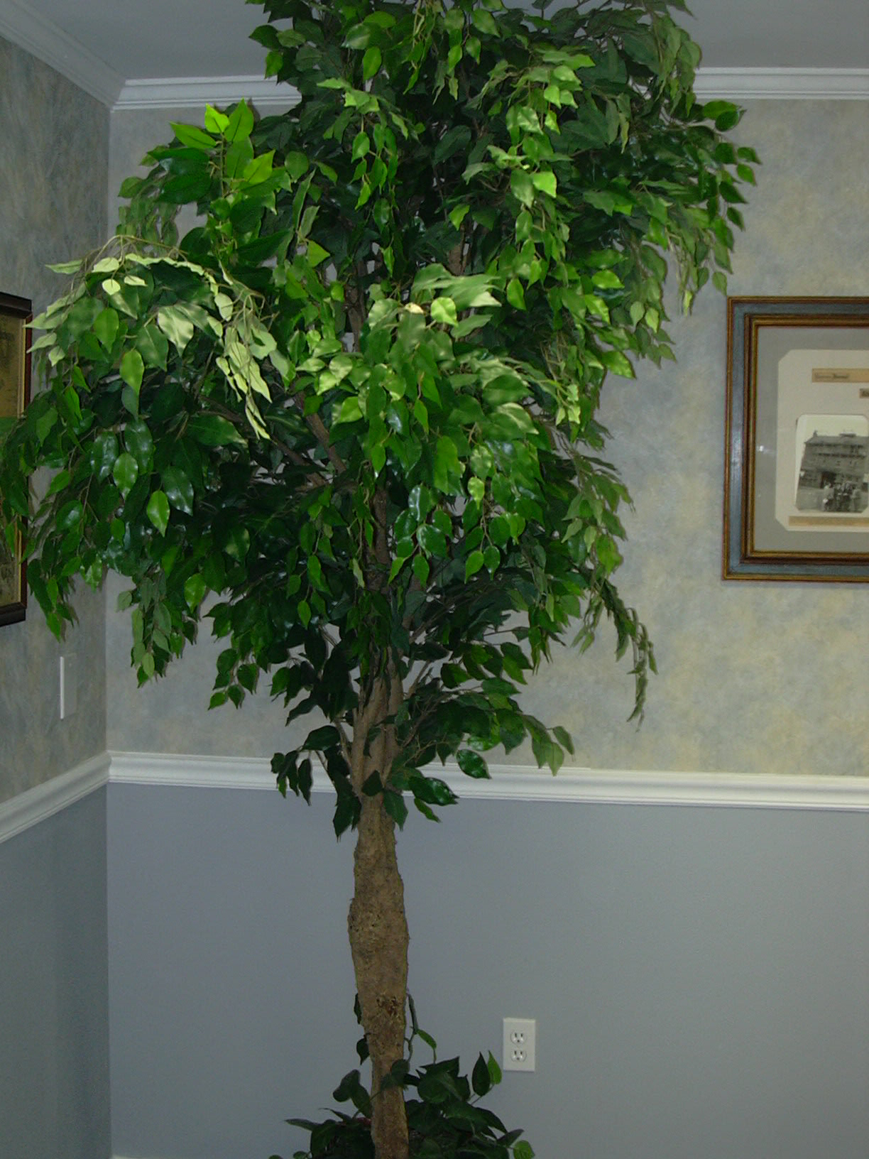 Ficus benjamina (silk). Location: Florida, Sarasota